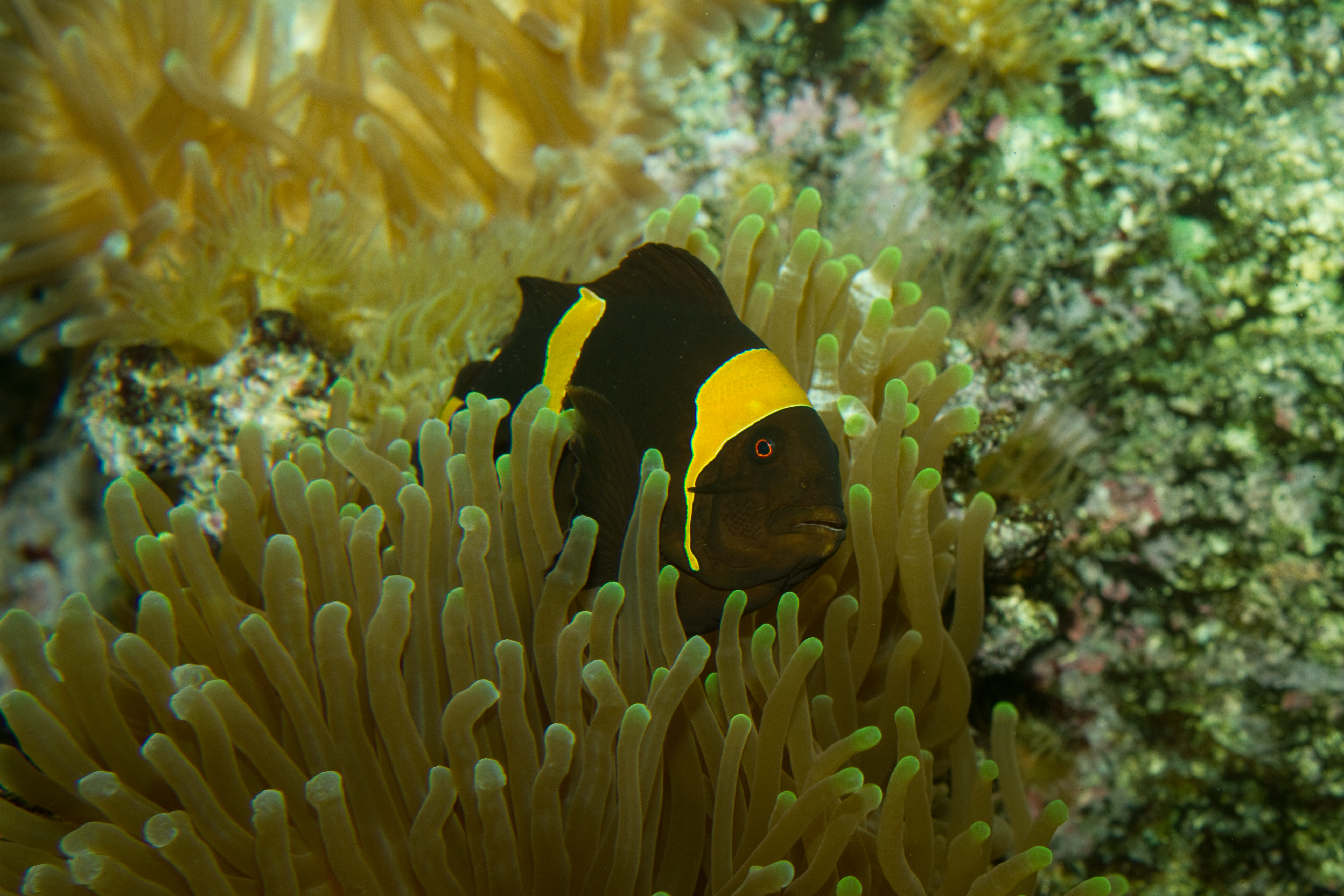 Premnas biaculeatus spine-cheeked anemonefish